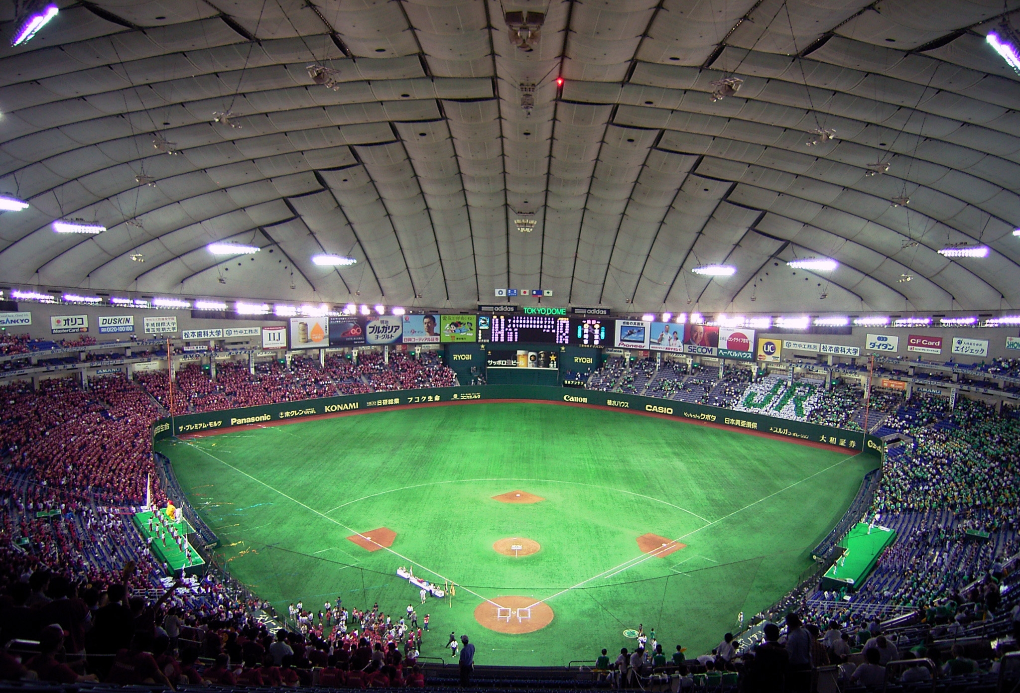 The Intercity Baseball Tournament 2007 Tokyo Dome